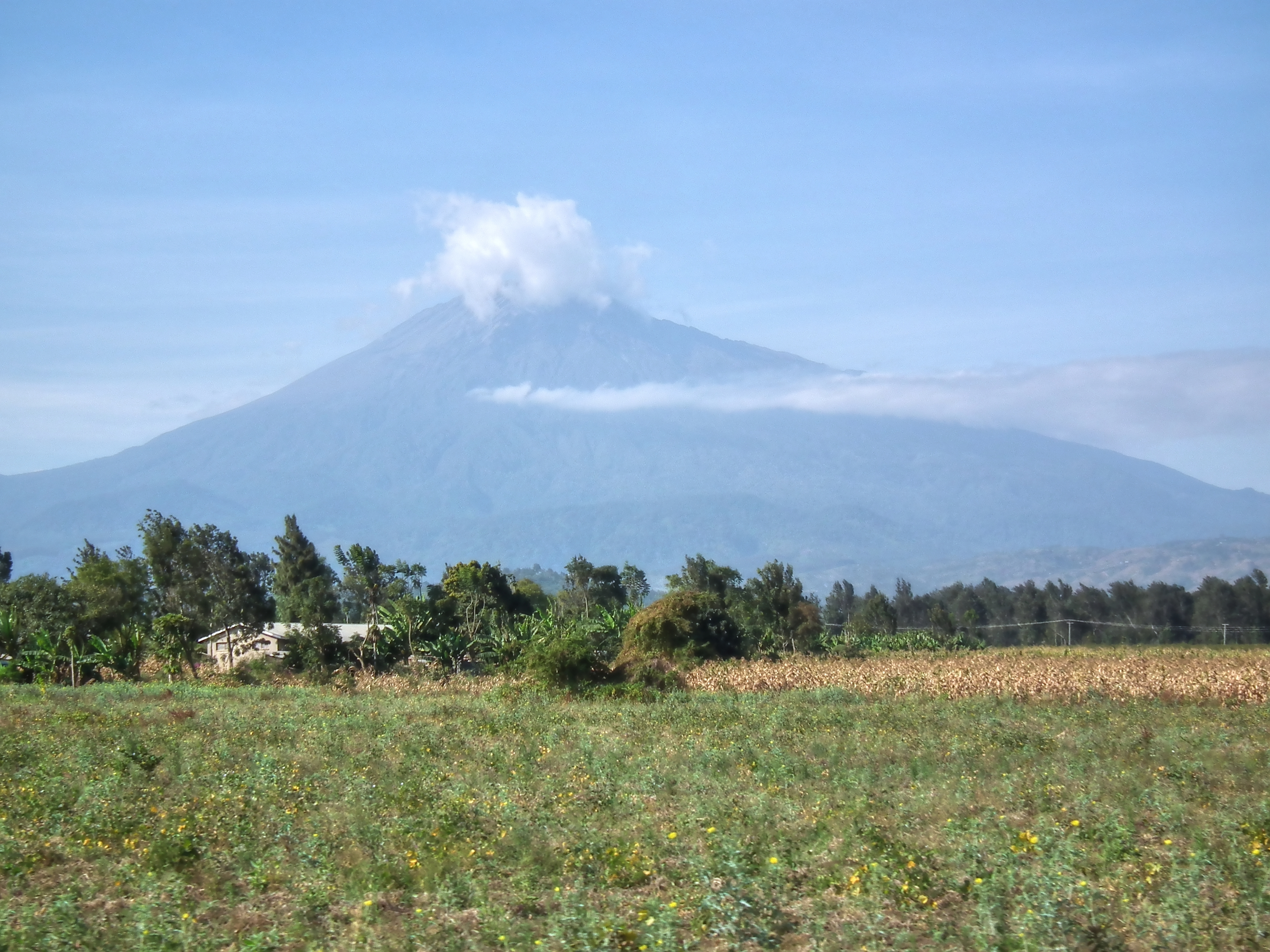 View of Kilimanjaro. picture taken in Tanzania